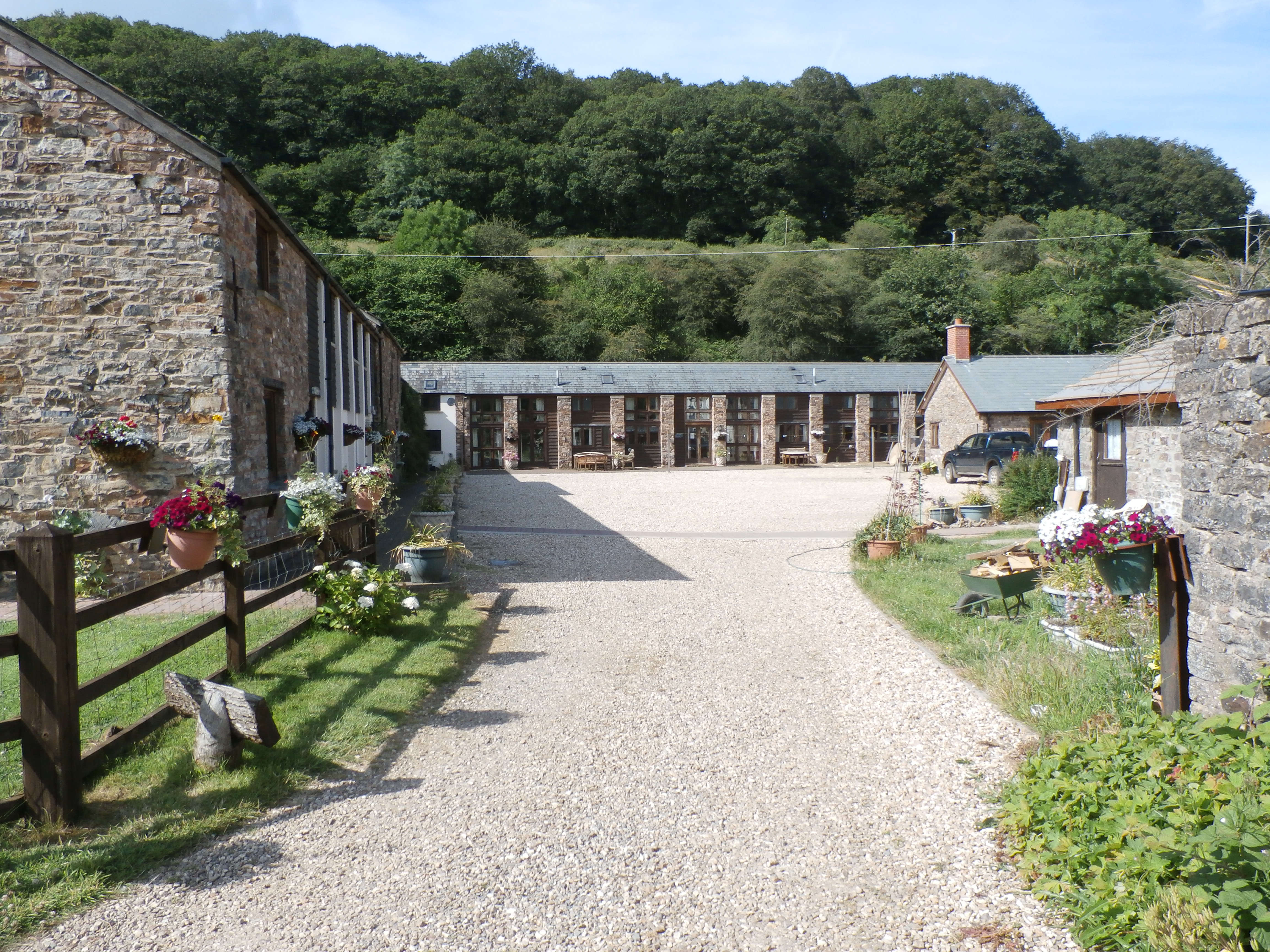 Farmyard at Duvale, near Bampton, Devon, now converted into residential accommodation. Former location of kennels of Tiverton Staghounds. Centre: Linhay (Devon term for open-fronted barn with livestock housing at ground level with hay-loft above)